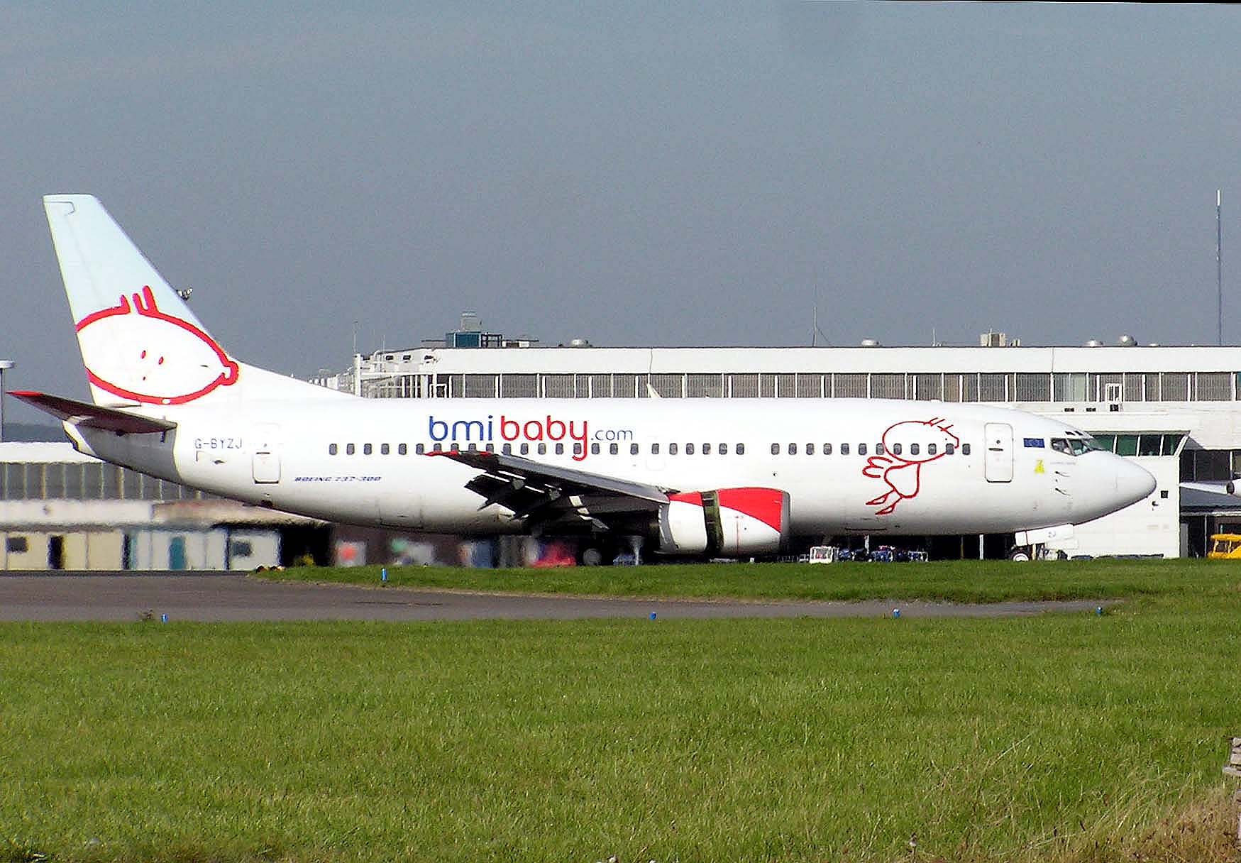 bmibaby Boeing 737-300 (G-BYZJ) at Cardiff (Rhoose) Airport, Cardiff, Wales. Taken by Adrian Pingstone in September 2004 and released to the public domain.